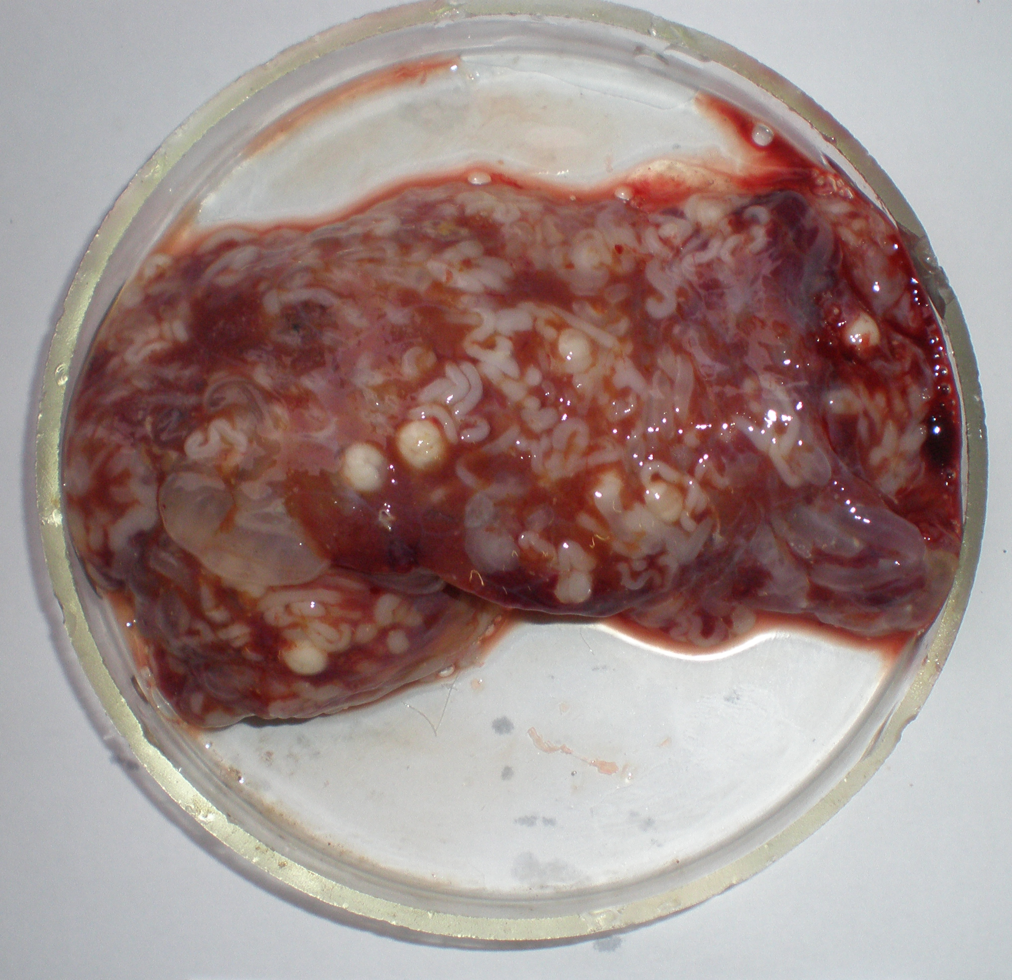 Figure 6 of paper (part of composite Figure 2-7). Merocerci of Molicola horridus in the liver of Diodon hystrix.